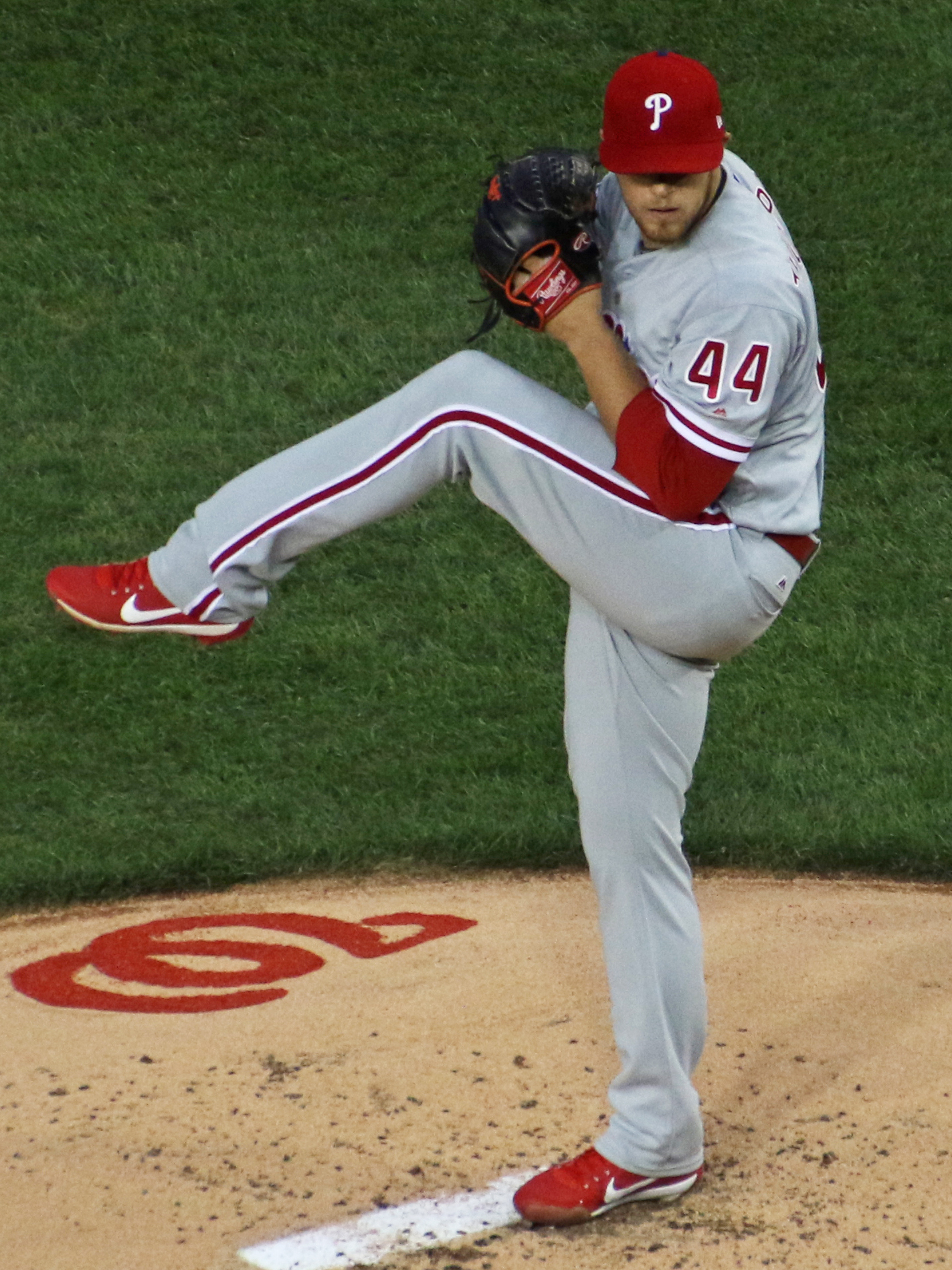 Jake Thompson delivers a pitch for the Philadelphia Phillies at Nationals Park in Washington, D.C. in 2017